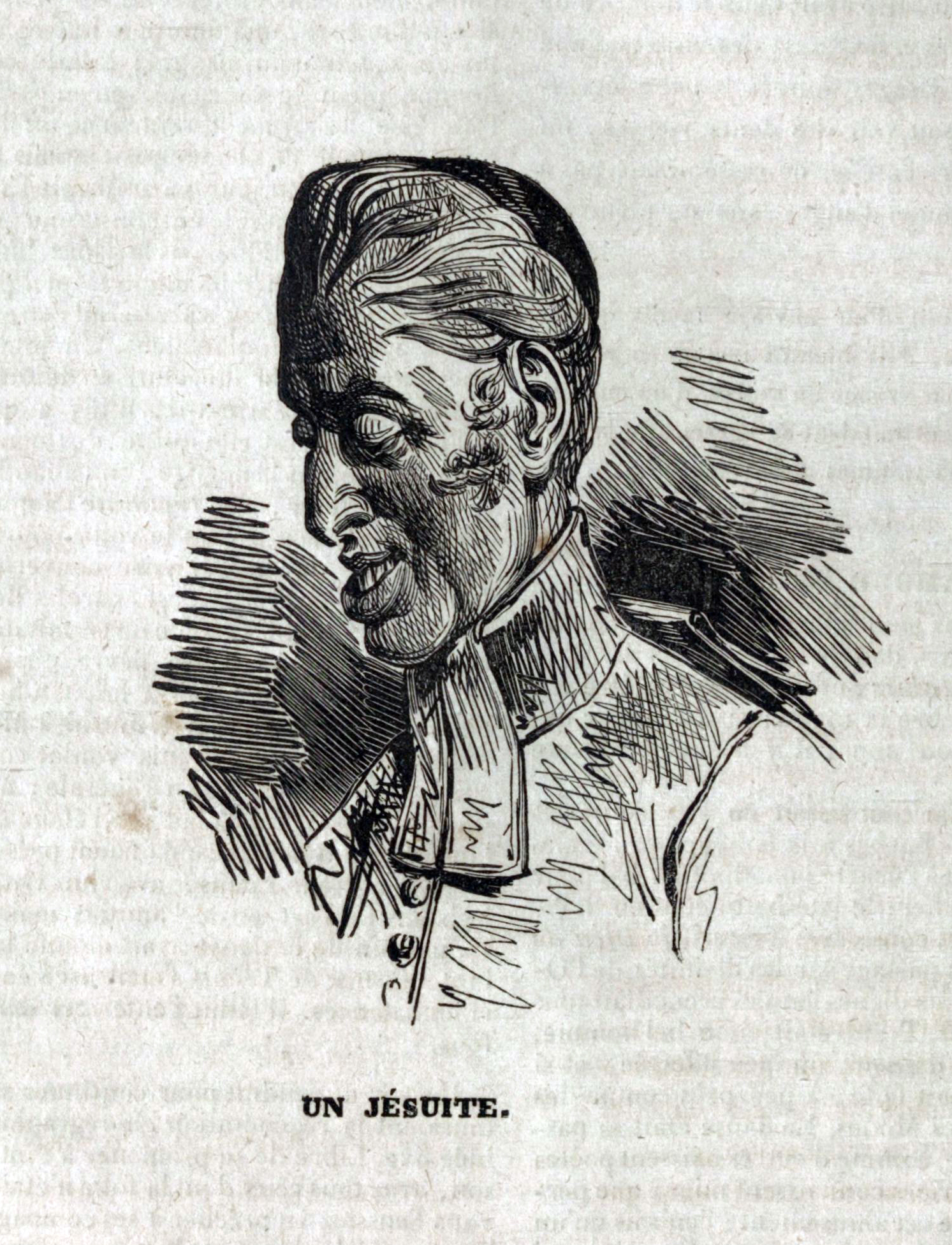 Photography